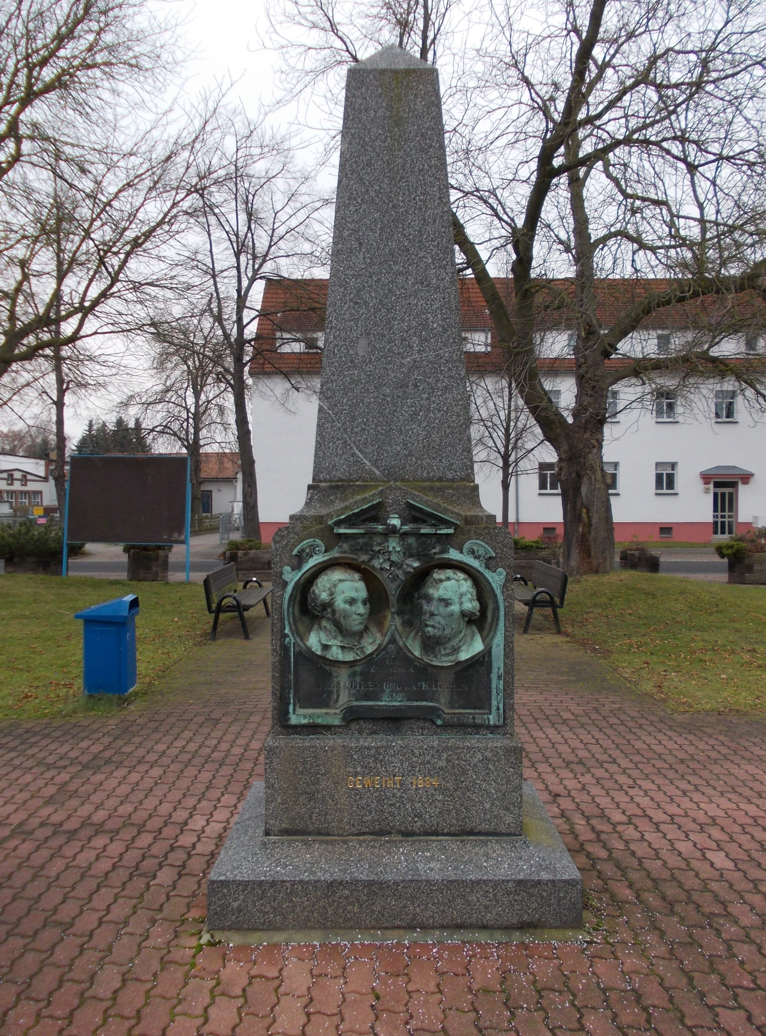 Martin Luther memorial in Neukieritzsch (Leipzig district, Saxony), originally in Zölsdorf